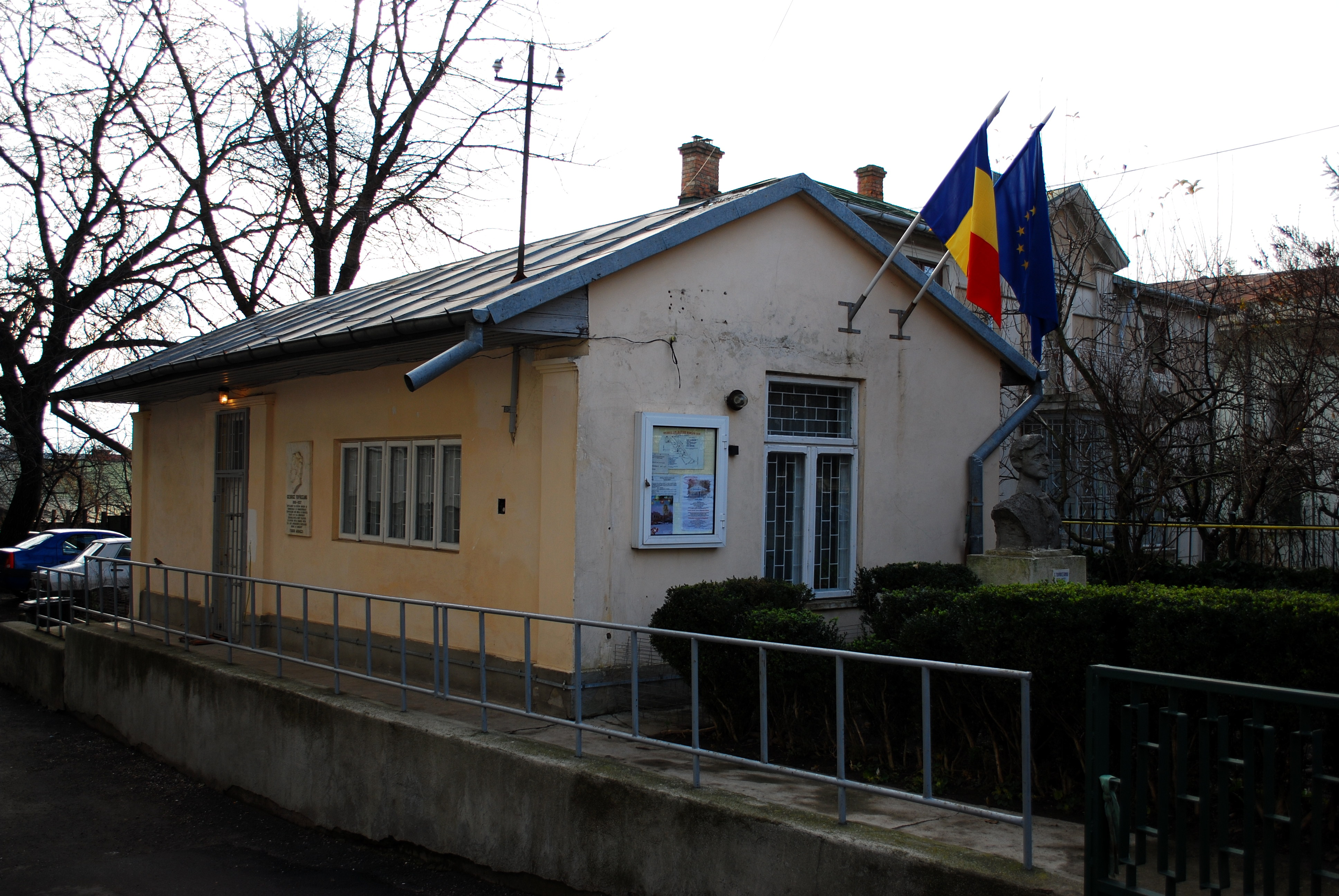 The George Topîrceanu memorial house in Iaşi, RomaniaRomână: Casa memorială George Topîrceanu din Iaşi